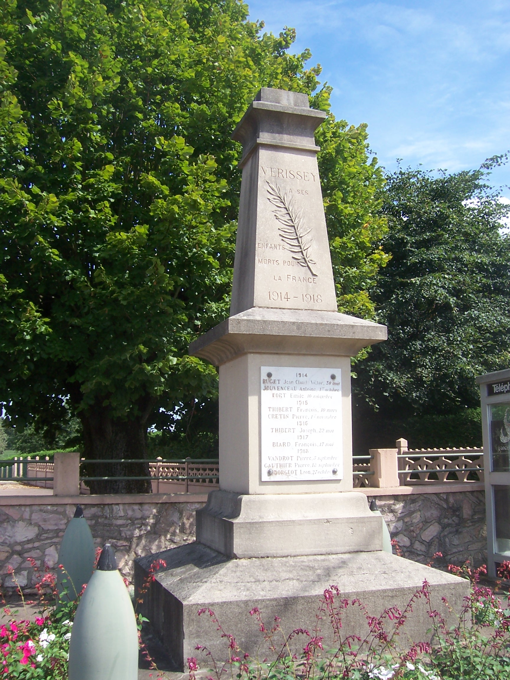 Verissey World War I Memorial